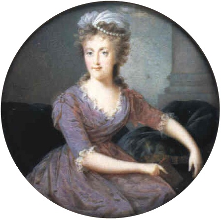 Portrait of Maria Carolina of Austria (1752-1814), Queen of Naples and Sicily